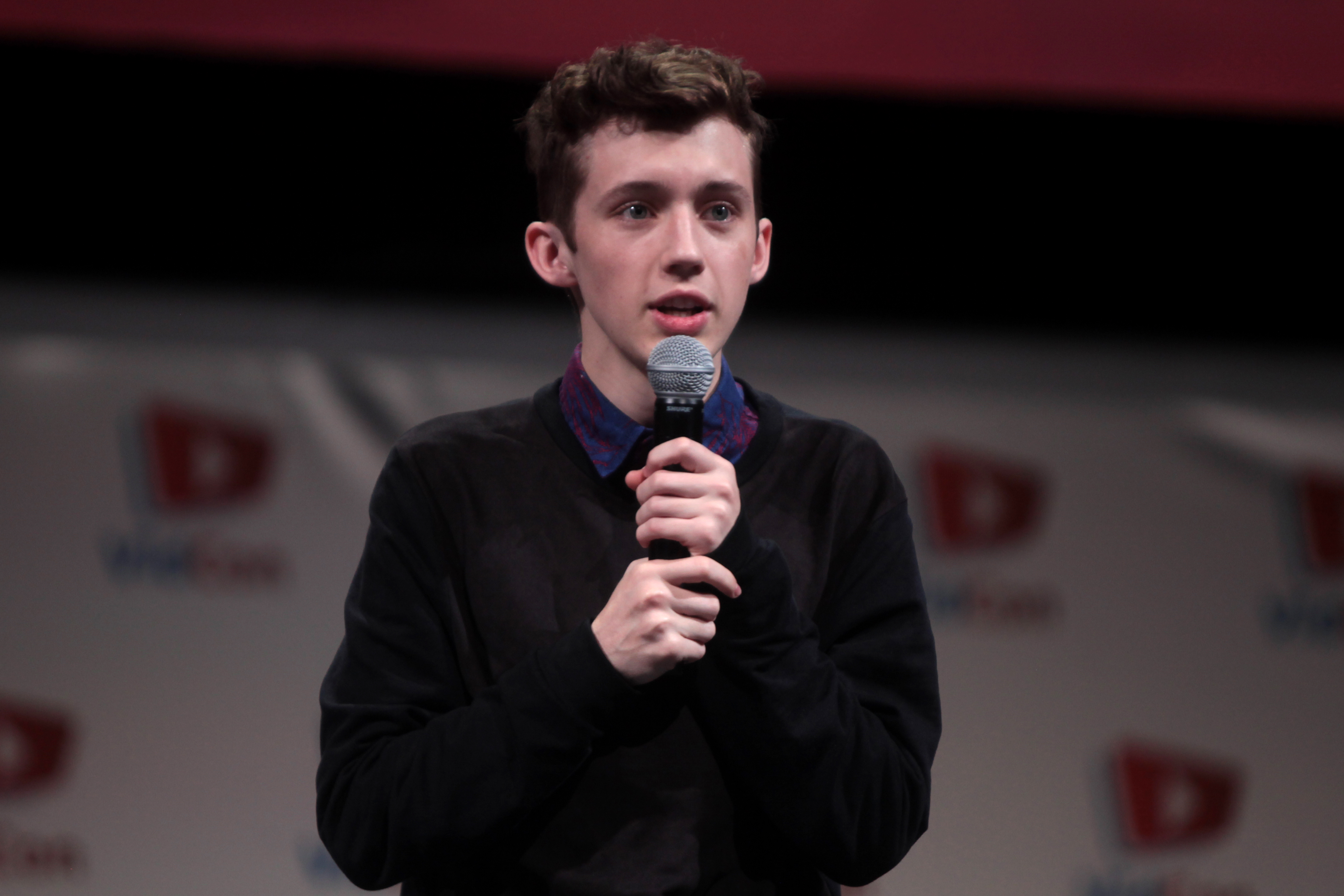 Troye Sivan speaking at the 2014 VidCon at the Anaheim Convention Center in Anaheim, California.